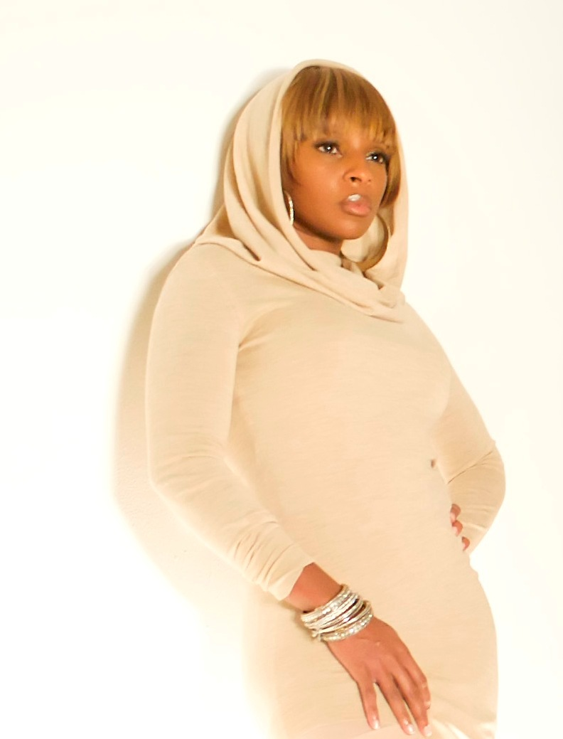 Mary J. Blige posing for the photographer Markus Klinko.